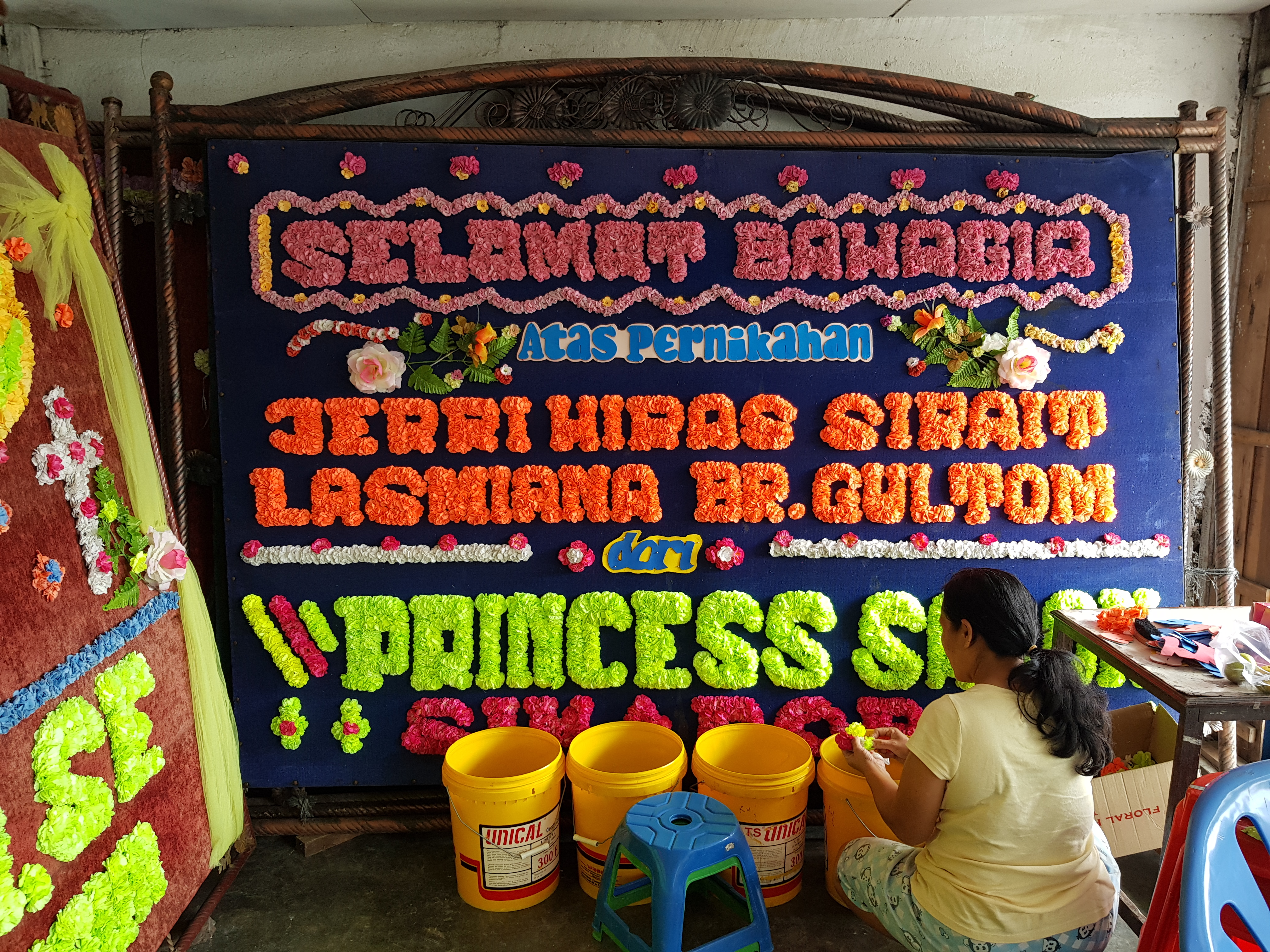 Papan Bunga, Construction in a special florist store at Parapat, Indonesia